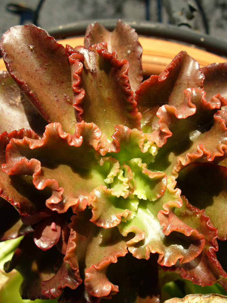 South Miami, FL, USA